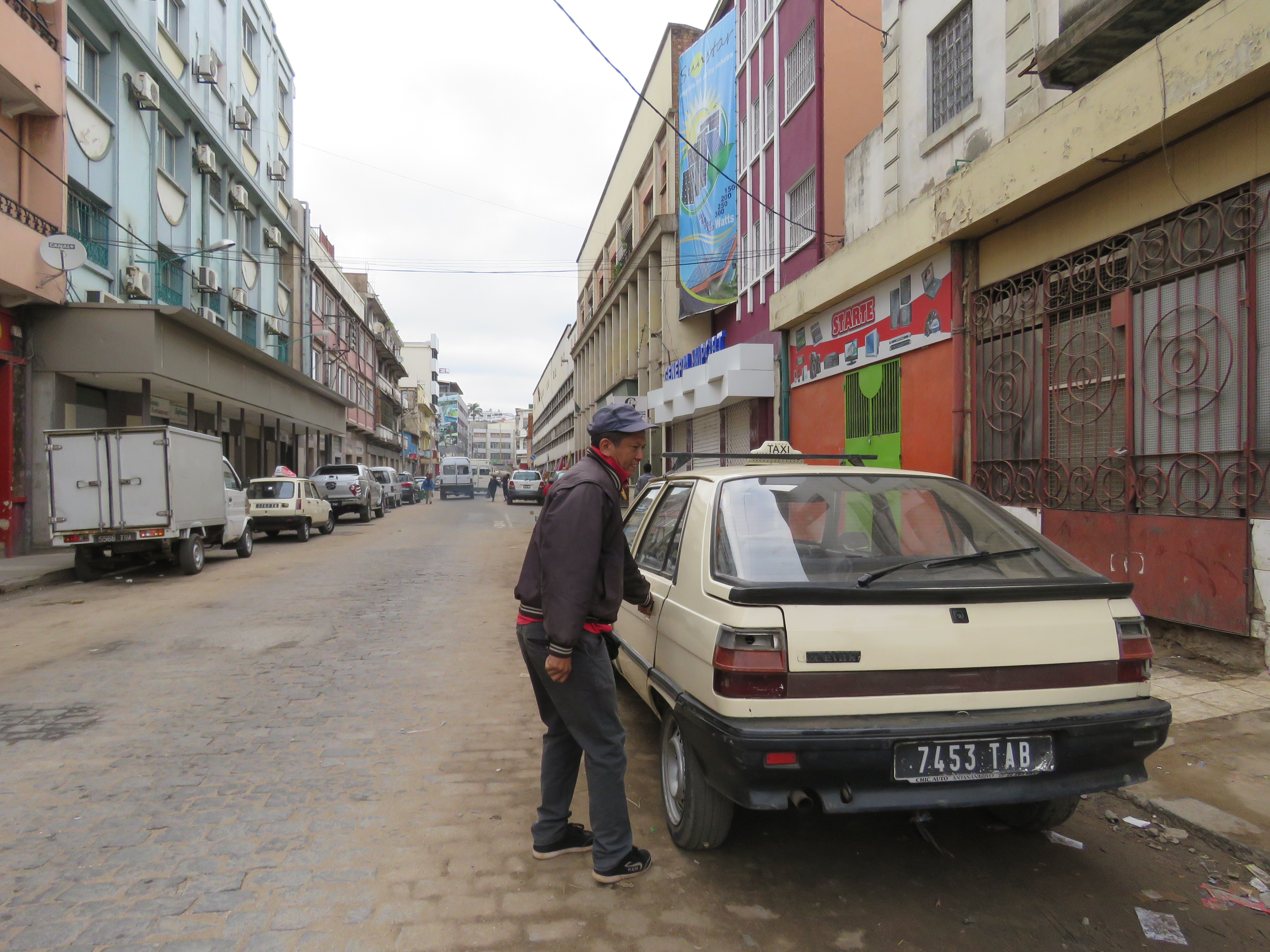 This is an image with the theme "Africa on the Move or Transport" from: Madagascar